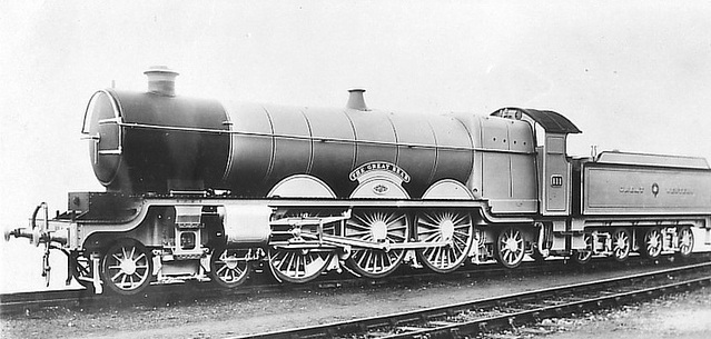 Official picture of the GWR 4-6-2 No.111 The Great Bear in 1908.